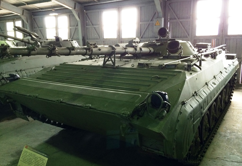 Russian infantry fighting vehicle / command staff vehicle (BMP-KSh) in the „Central museum of tank-technology and armament“.